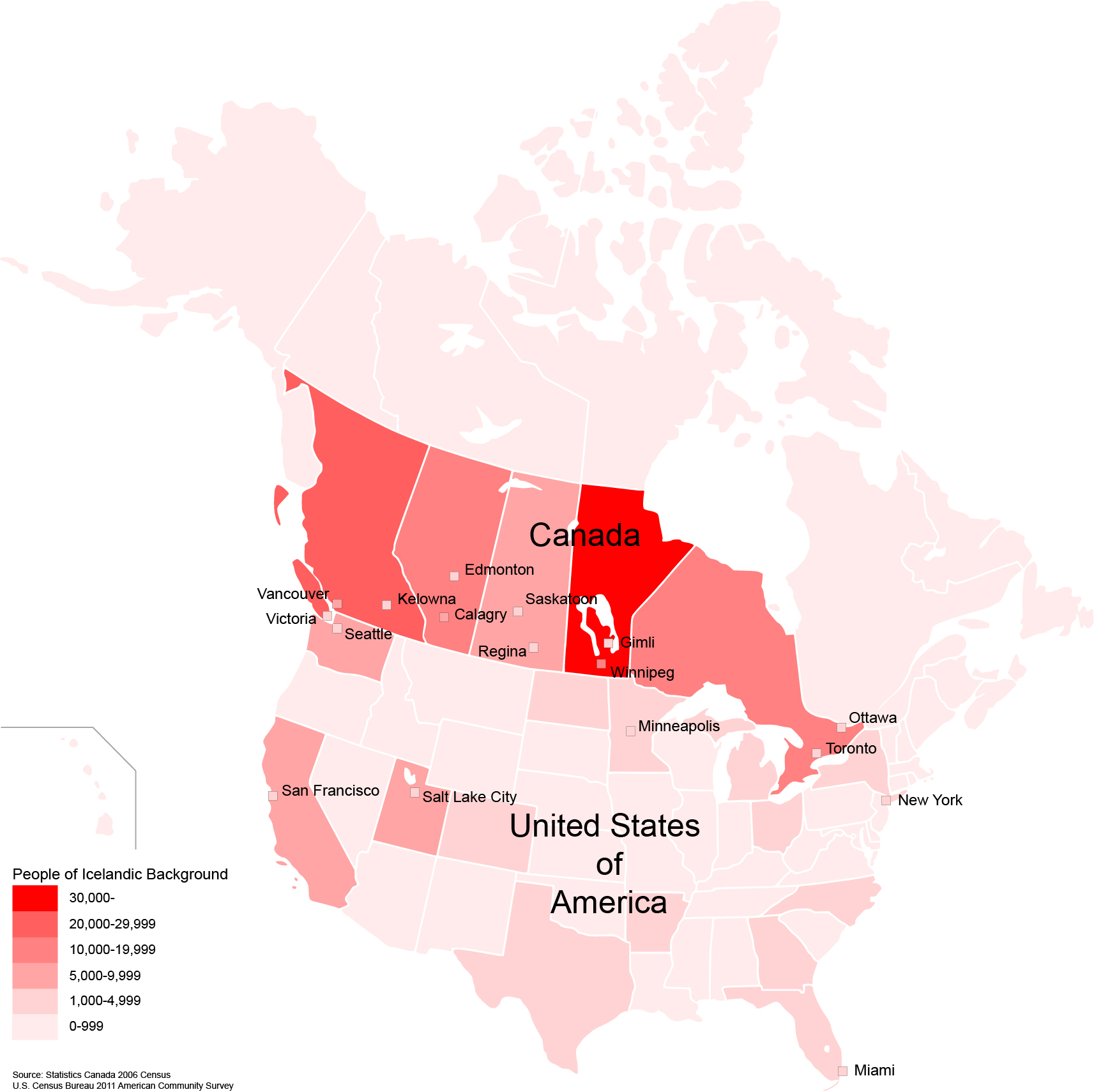 Map illustrating the distribution of People of Icelandic orgin or ancestry in North America.